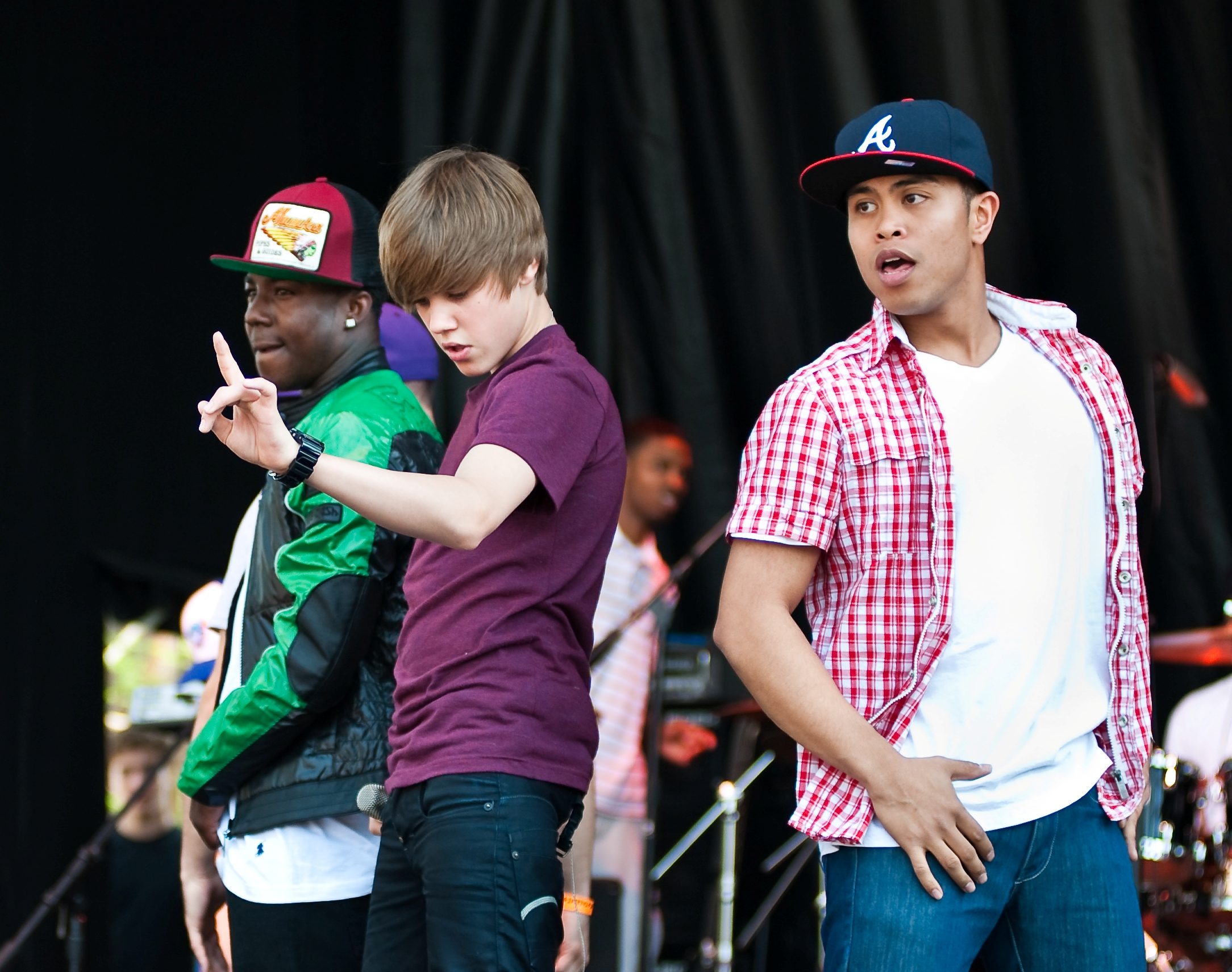 Justin Bieber at the 2010 White House Easter Egg roll